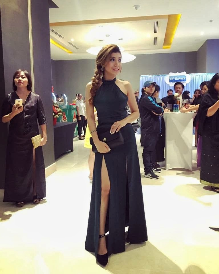 Sophia Everest at Shwe FM Show, Novotel Yangon Max